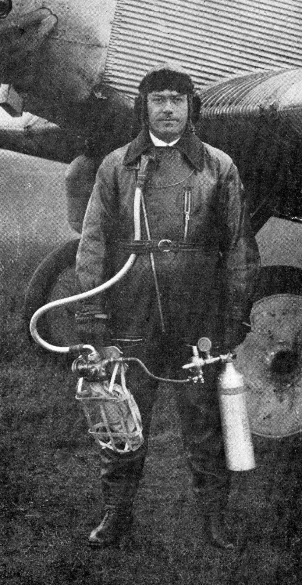 Willi Neuenhofen in his flight suit that he used to set a world altitude record in a Junkers W 34 be/b3e. Photo from L'Aéronautique July,1929